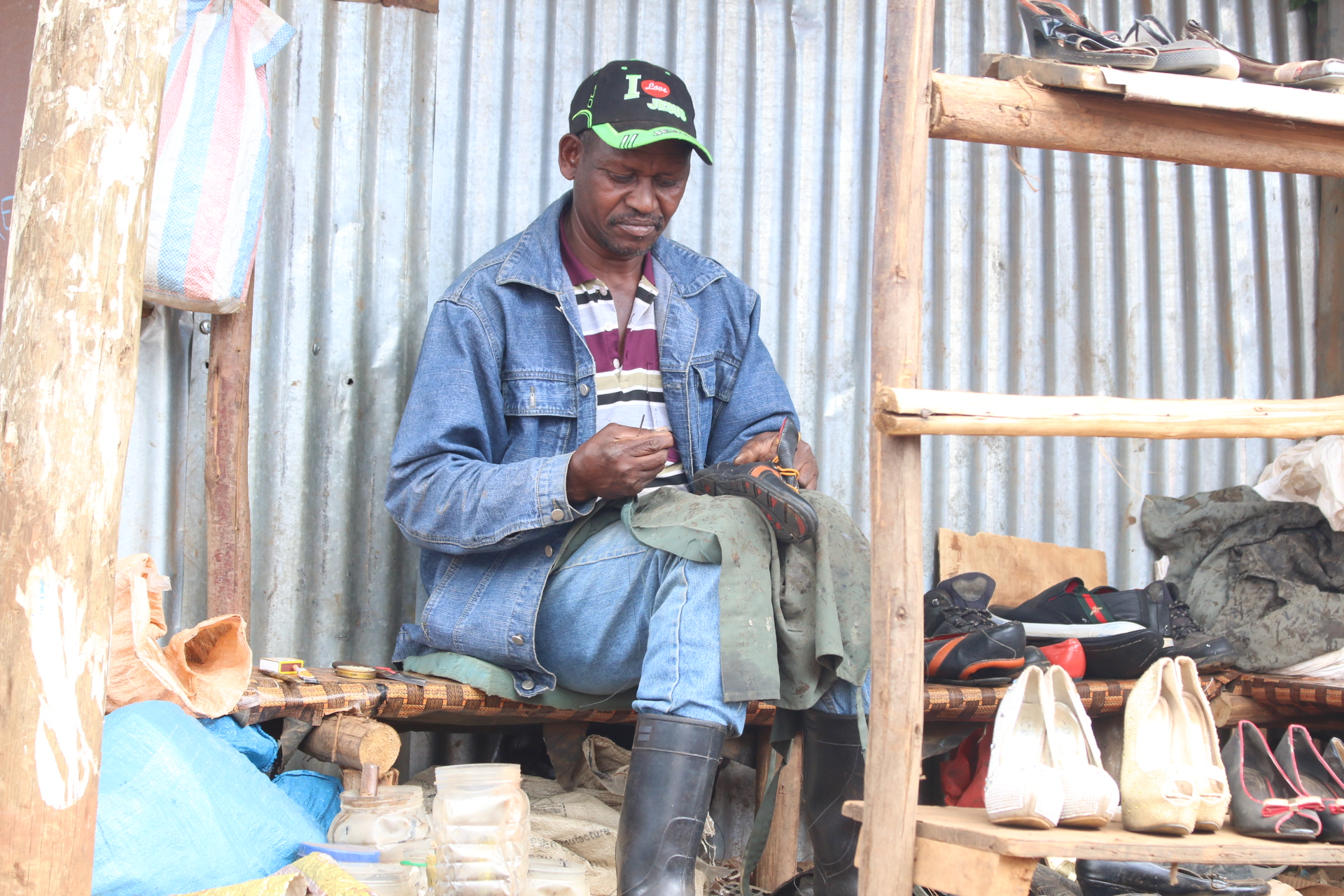 This is an image with the theme "Africa on the Move or Transport" from: Kenya